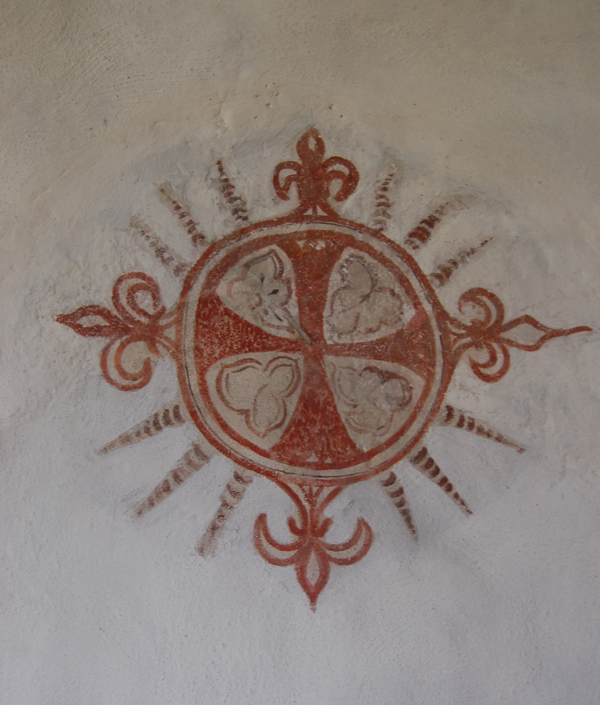 Arby Church.Consecration of the chapel apse